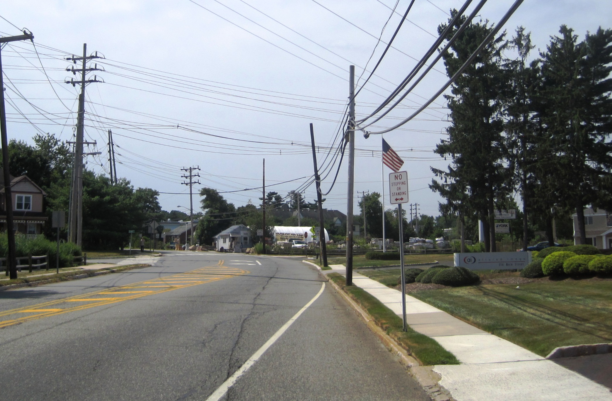 Photo of Freneau, New Jersey, an unincorporated community within Matawan. Photo taken on southbound Main Street (New Jersey Route 79) approaching the former Monmouth County Agricultural Railroad, now Henry Hudson Trail.